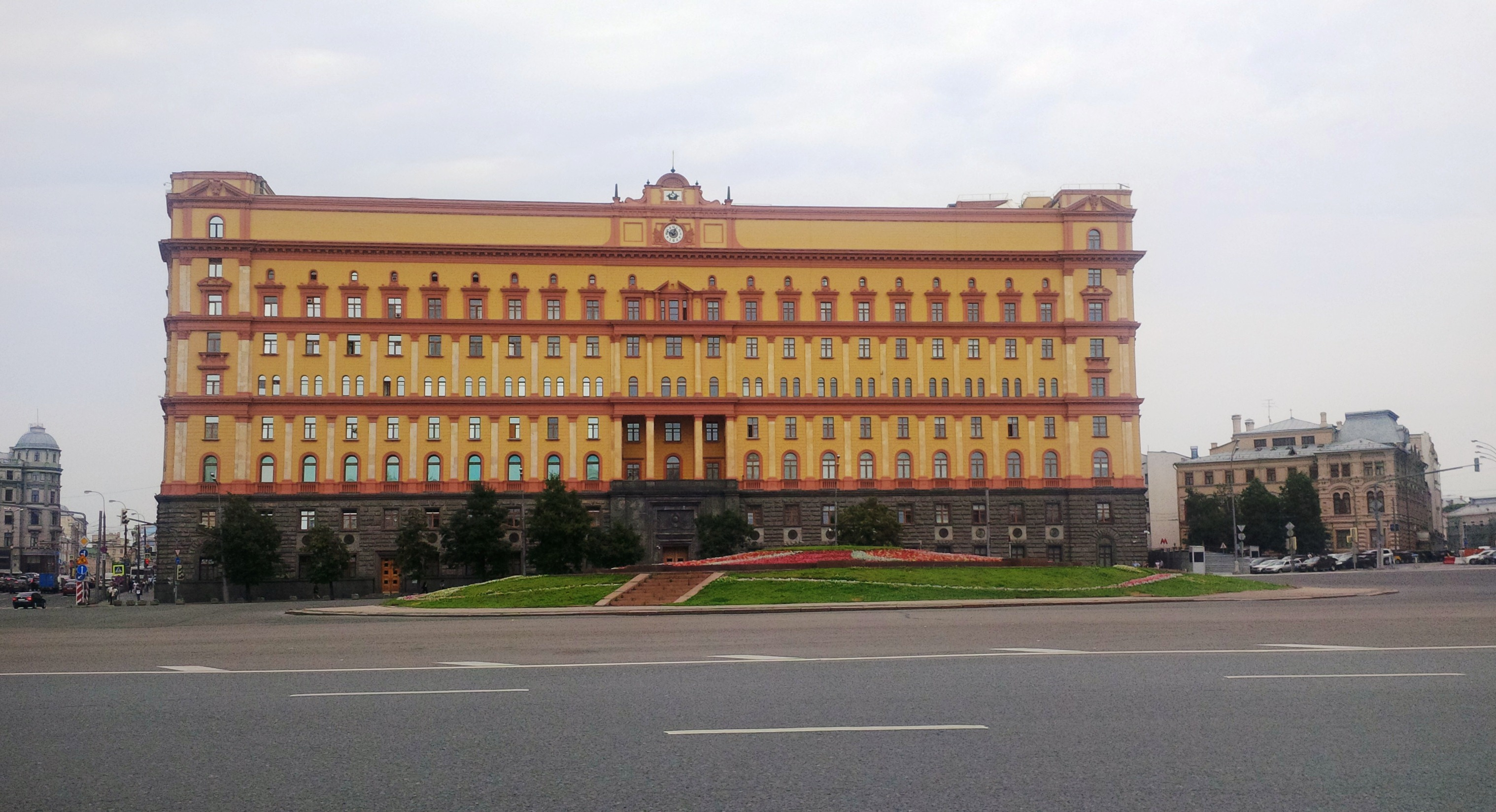 KGB Building in Moscow